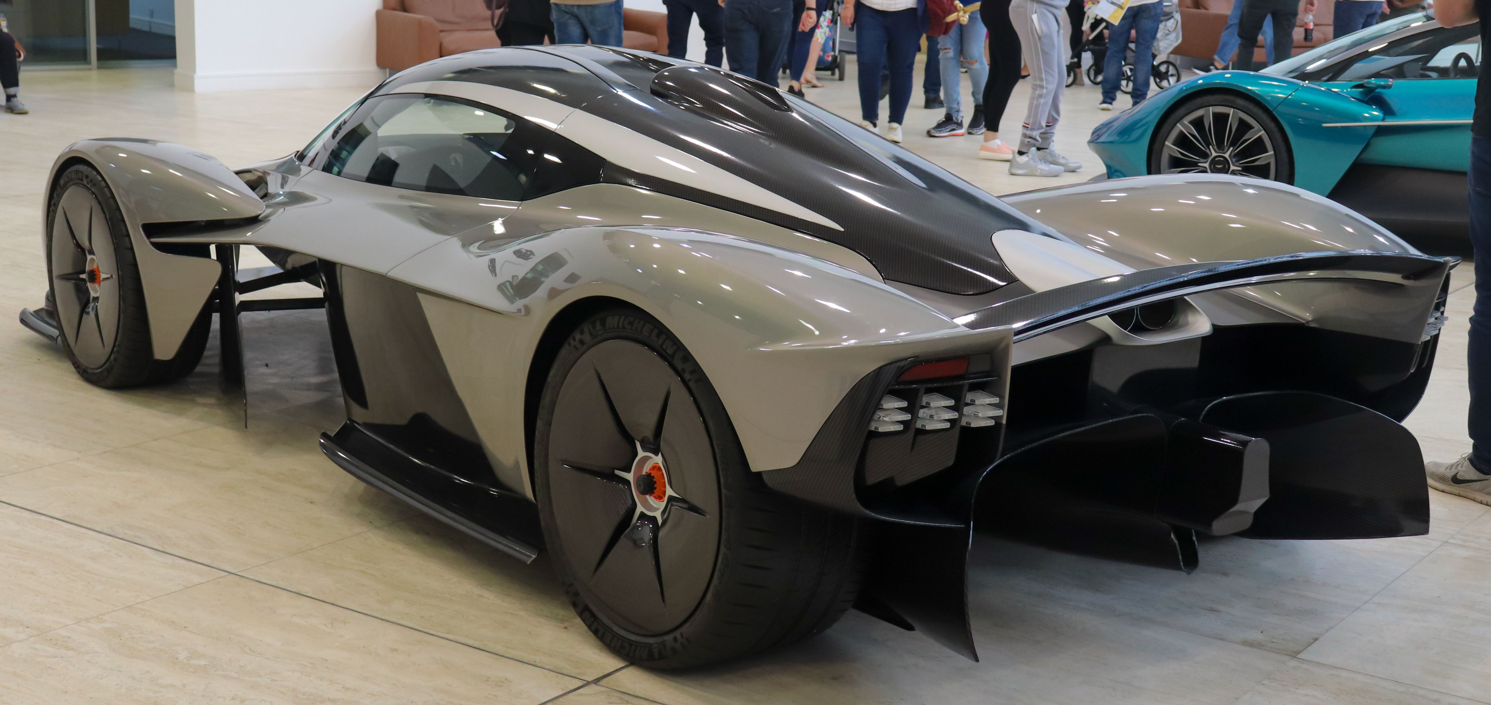 2019 Aston Martin Valkyrie AMR Pro 6.5 Rear Taken at the Aston Martin Lagonda factory, Gaydon